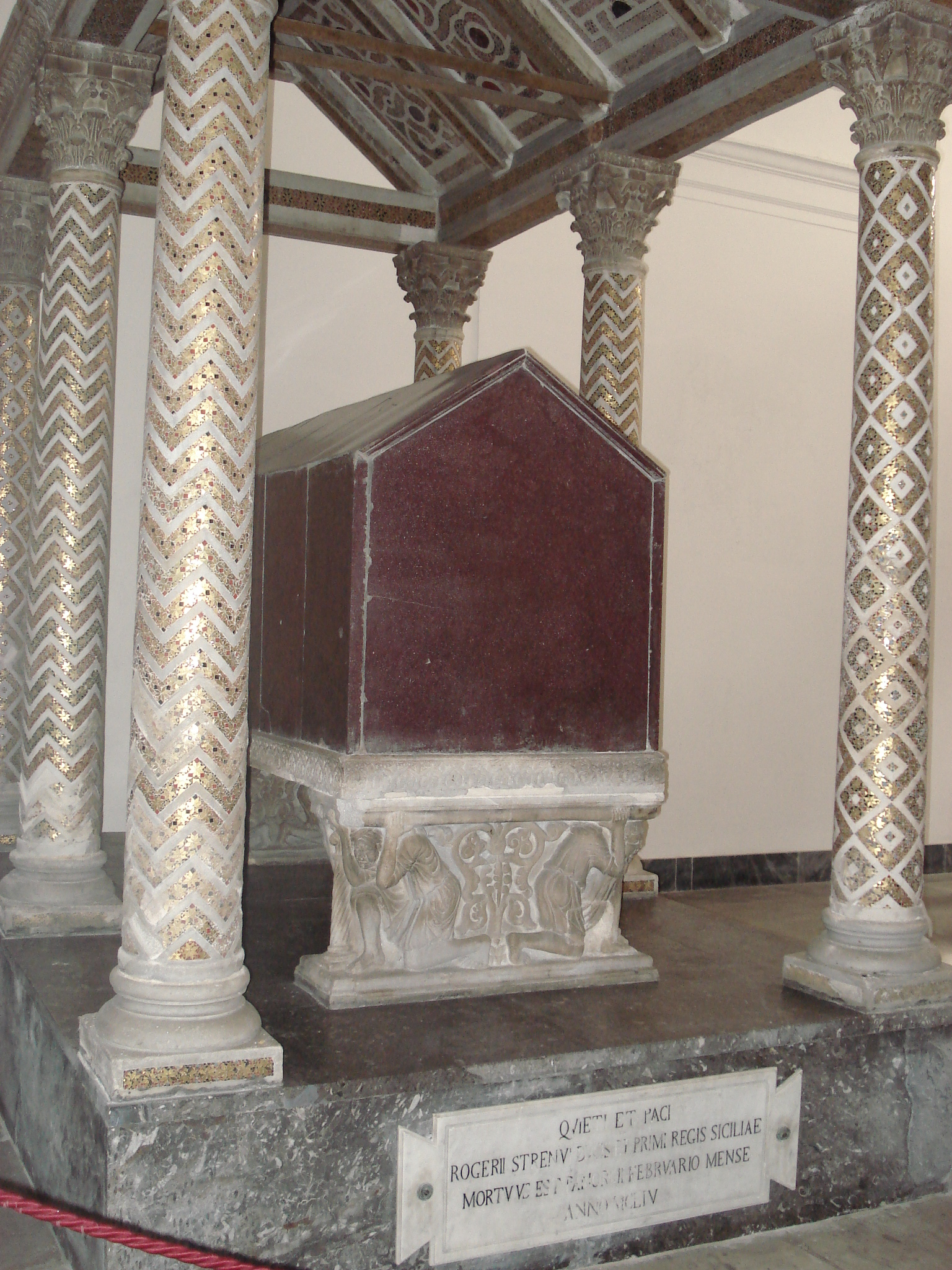 Porphyry sarcophagus of Roger II of Sicily (1095--1154), in the Cathedral of Palermo (Sicily). Picture by Giovanni Dall'Orto, September 28 2006.